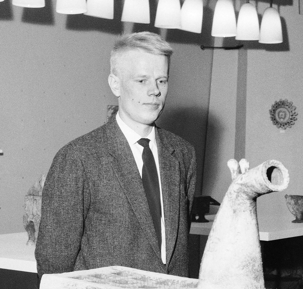 Photograph of the Finnish designer Oiva Toikka (1931–2019) in the opening of his exhibition at Wärtsilä näyttelyhuoneisto.